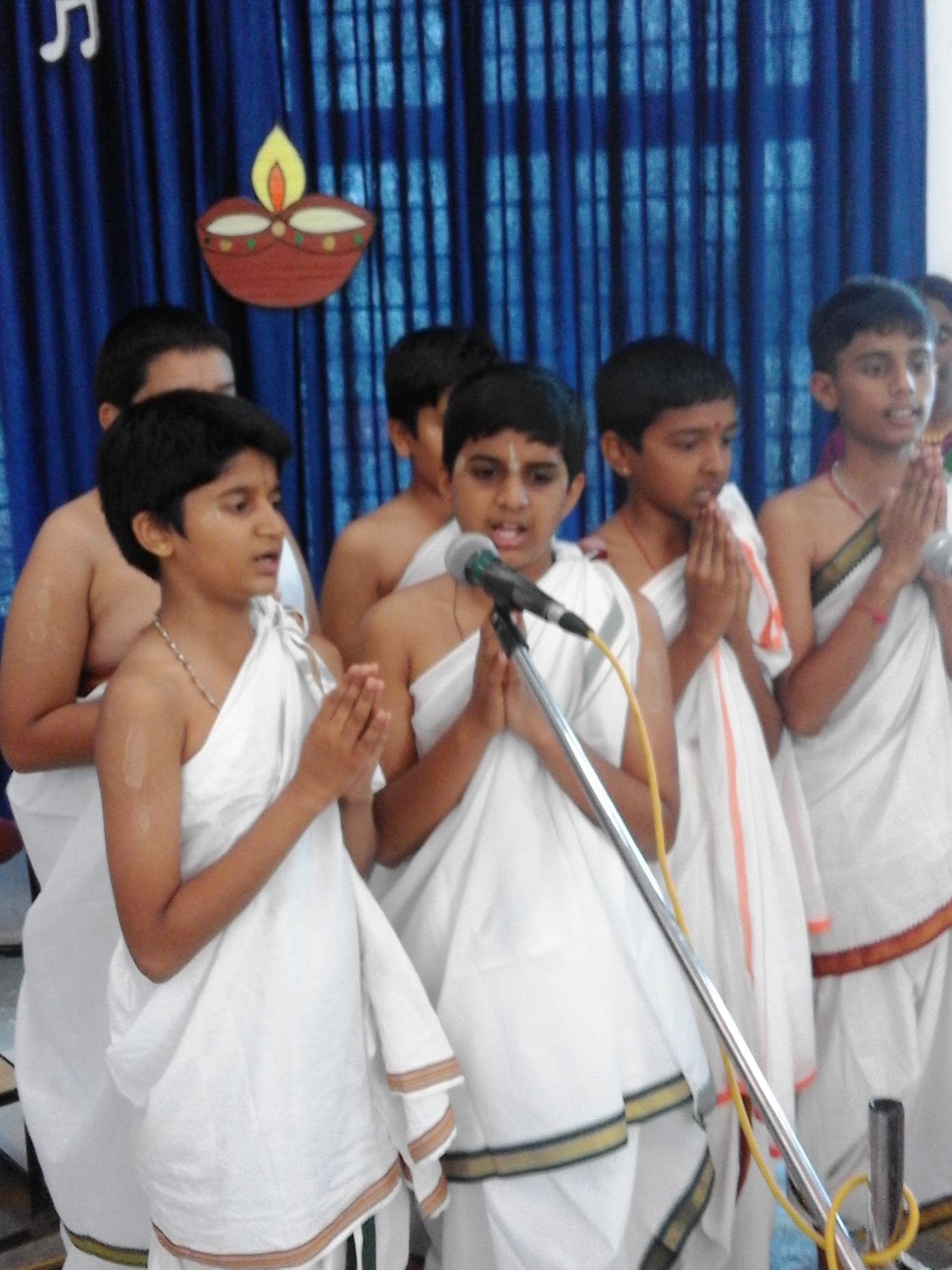 Pramati Hillview Academy, Udayagiri Road, Kuvempu Nagar, Mysore city, Karnataka state, India.